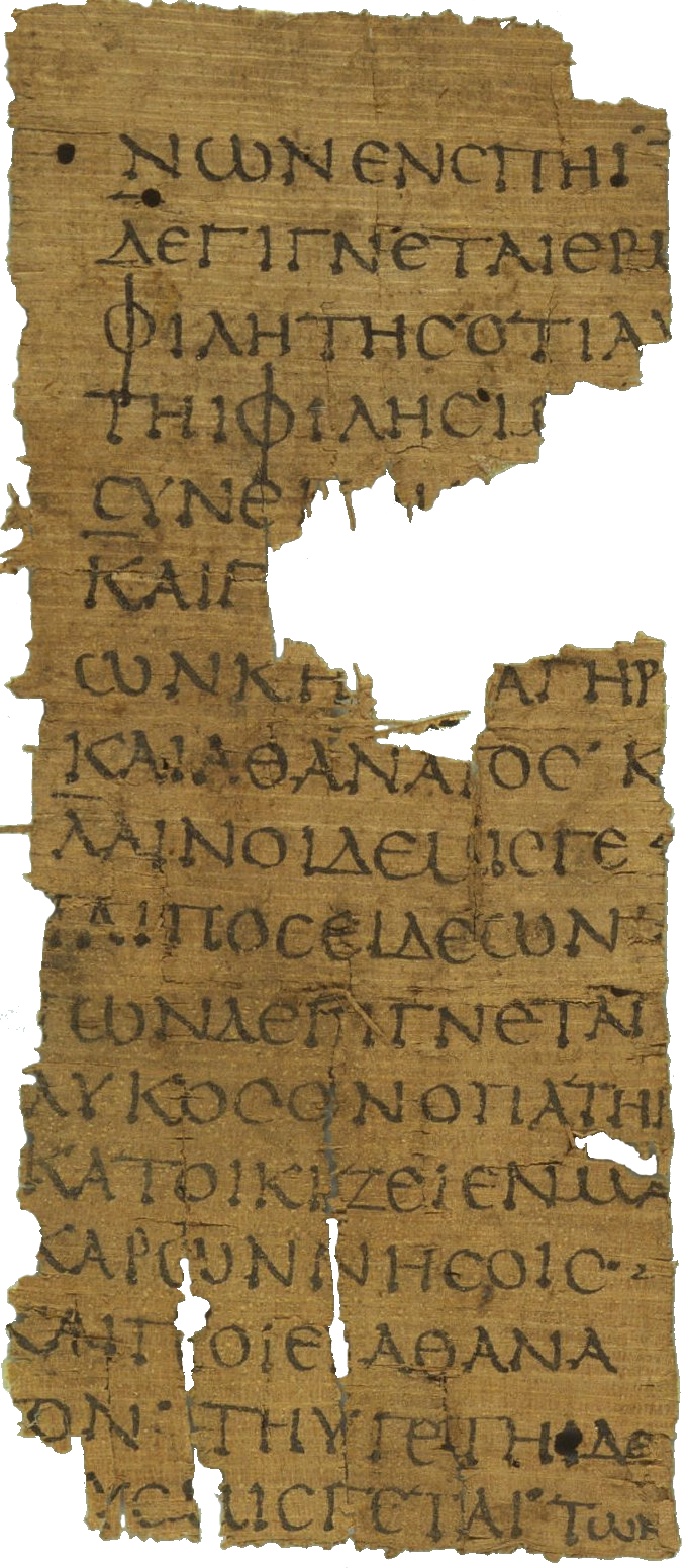 P.Oxy. VIII 1084 containing a fragment of Atlantis by Hellanicus of Lesbos